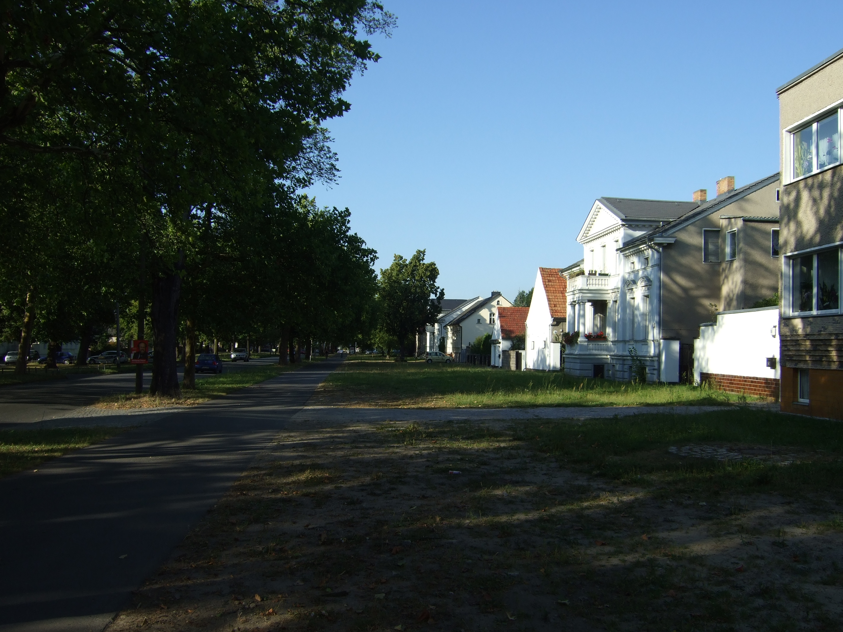 Street Alt-Karow in Berlin-Karow.